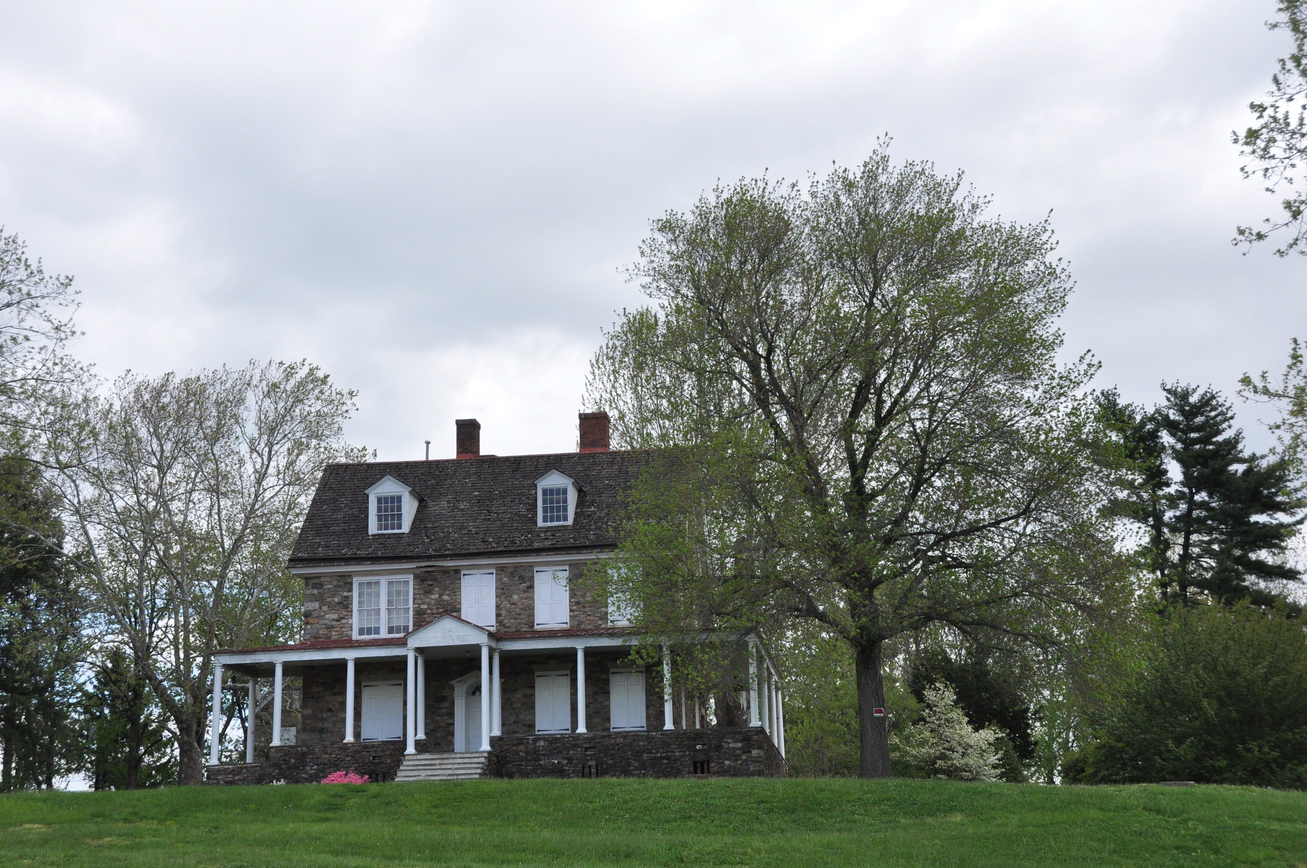 The historic Phineas Pemberton House in the Bristol portion of Levittown, Pennsylvania.